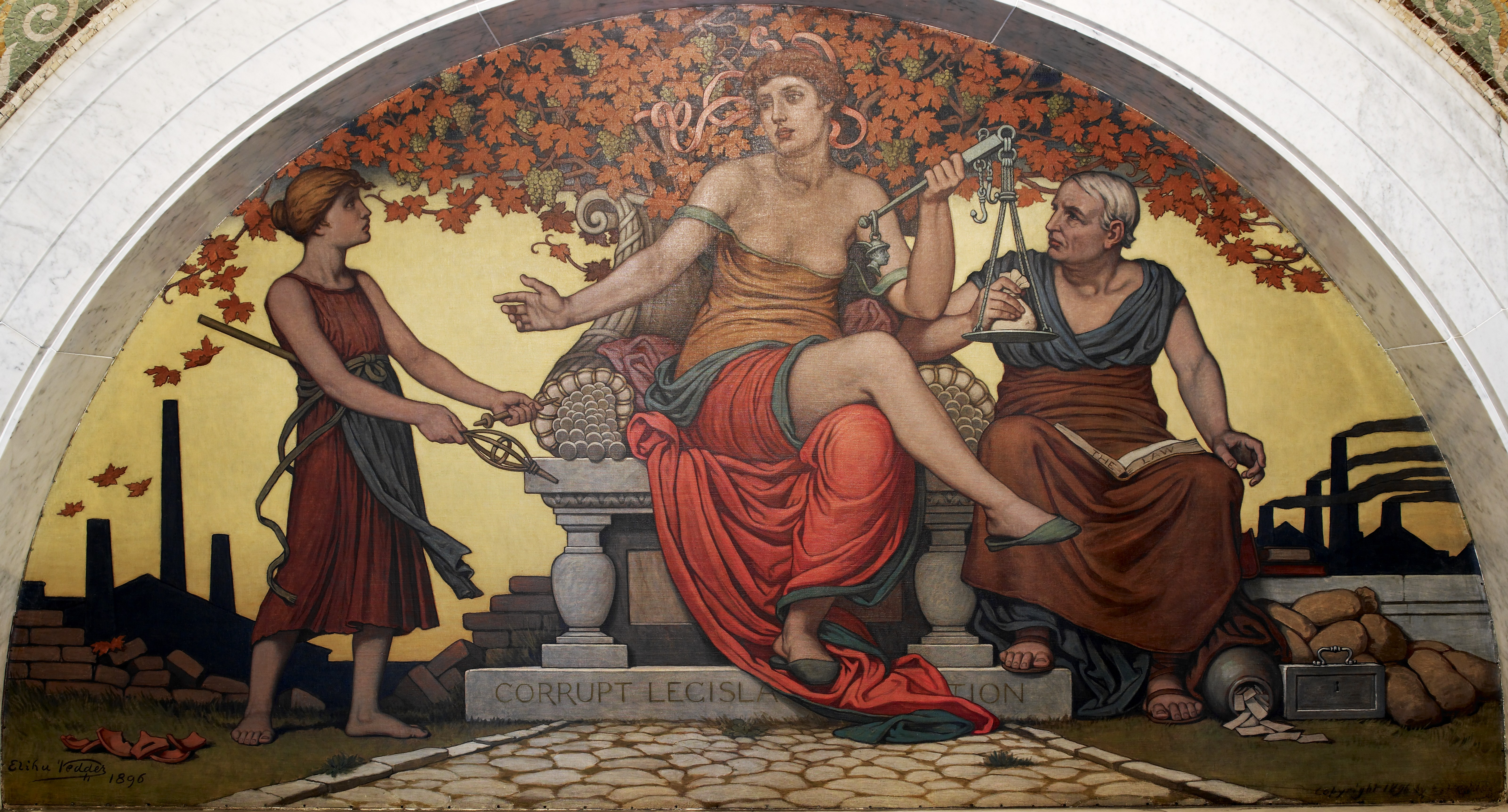 Corrupt Legislation. Mural by Elihu Vedder. Lobby to Main Reading Room, Library of Congress Thomas Jefferson Building, Washington, D.C. Main figure is seated atop a pedestal saying "CORRUPT LEGISLATION". Artist's signature is dated 1896.